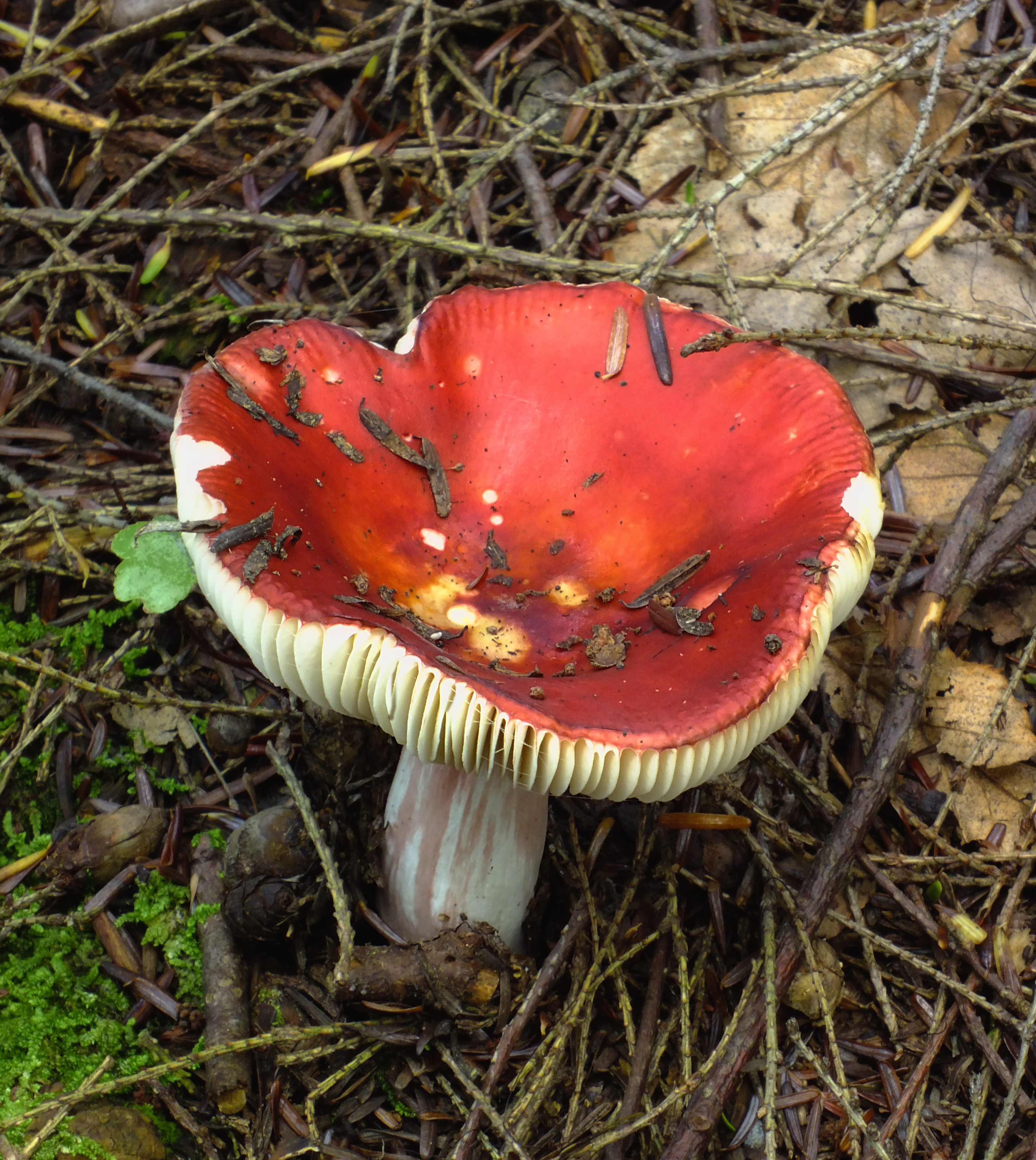 Red-capped mushroom (possibly Russula silvicola), Clinton County–Potter County line, within the Forrest H. Dutlinger Natural Area of Susquehannock State Forest.